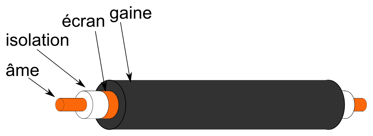 XLPE cable description